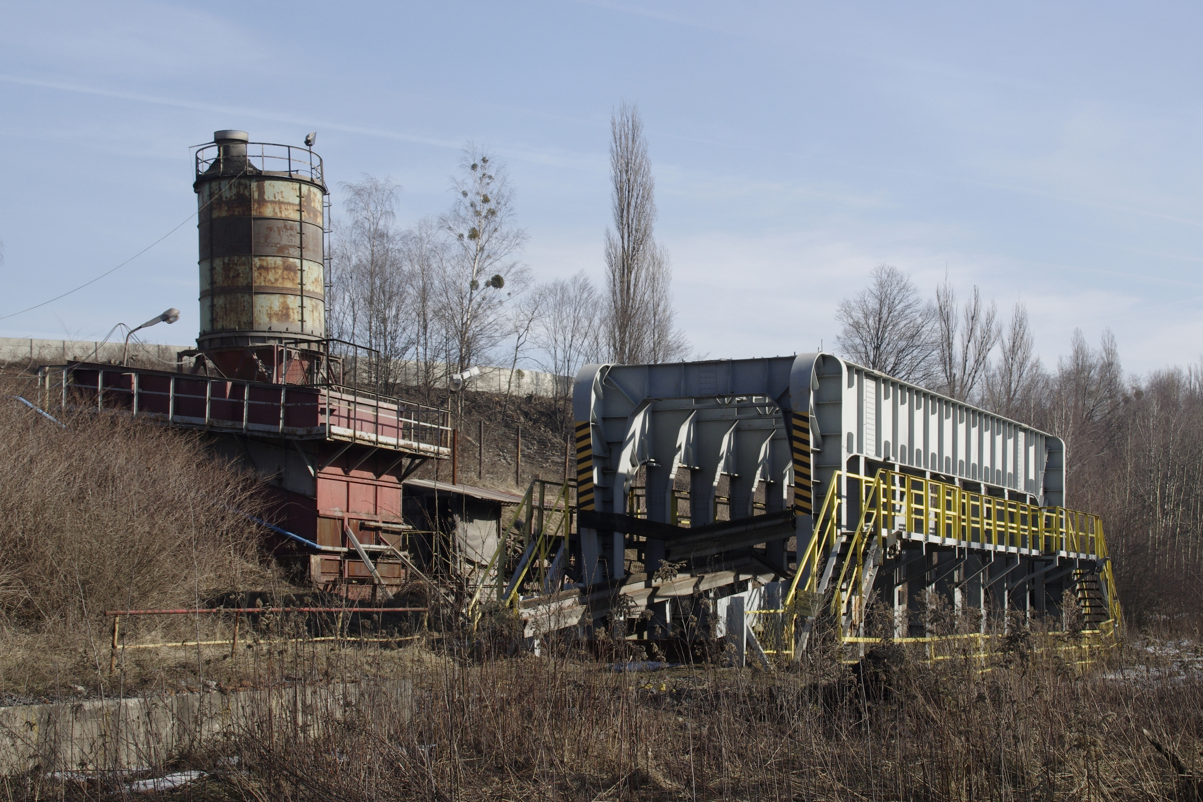 Bytom, Bobrek coal mine Zbigniew pit sand filling bridge.